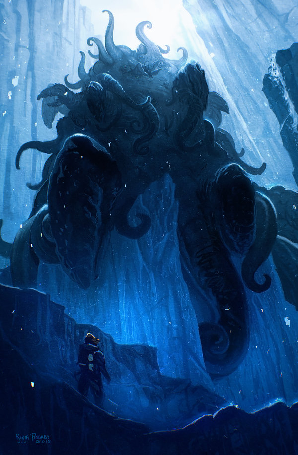 The sculptor George Rogers stands before the Great Old One Rhan-Tegoth sleeping on its throne in Alaska.Borja Pindado's artwork based on H. P. Lovecraft's short story "The Horror in the Museum".